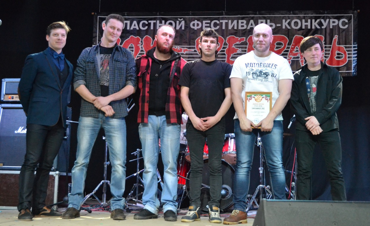 Музыканты XXII Областного фестиваля «Рок-Февраль — 2015»